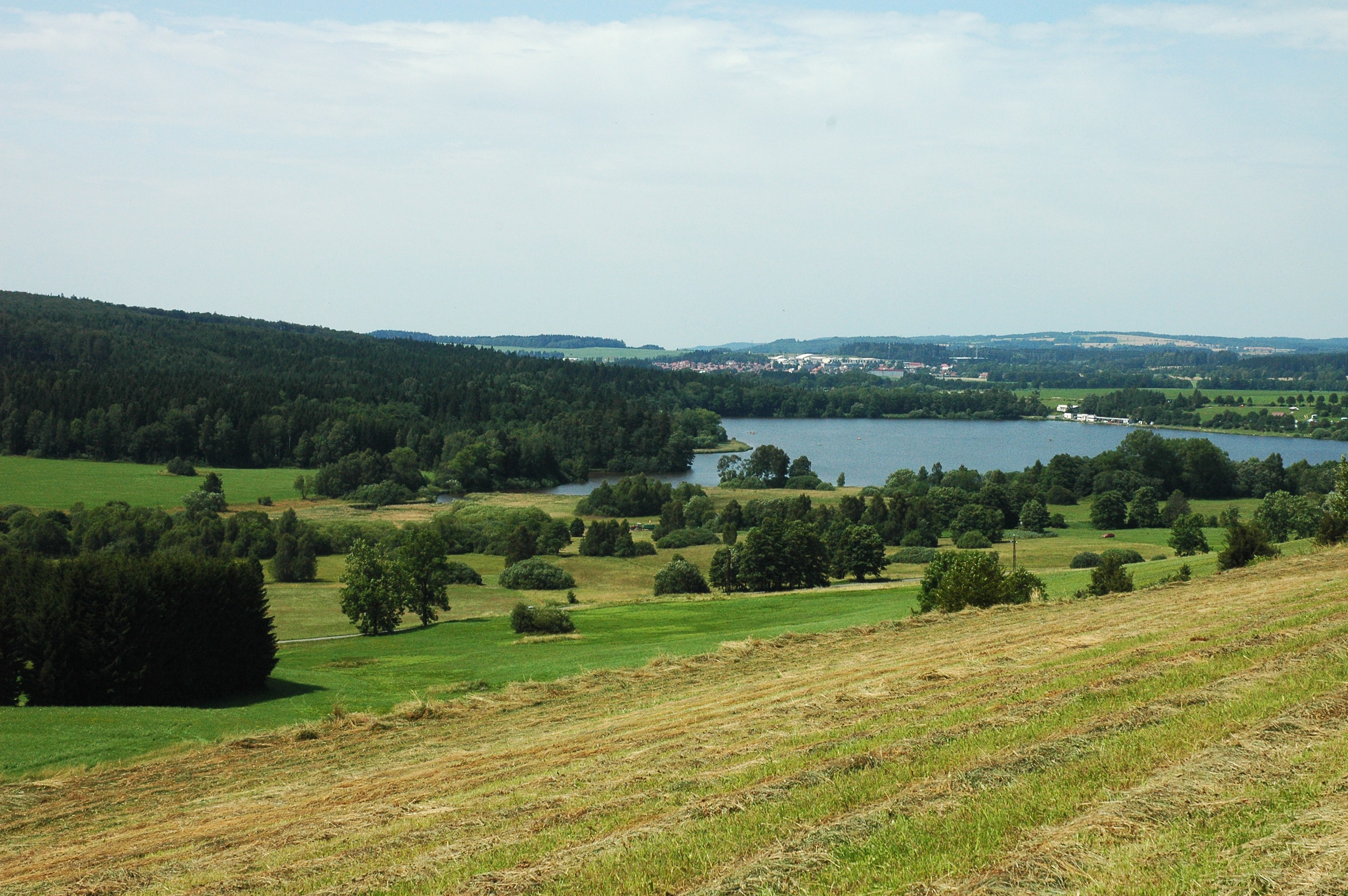 Nature reserve Řeka in Havlíčkův Brod District, Czech Republic